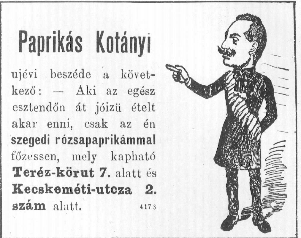 Kotányi paprika powder ad.